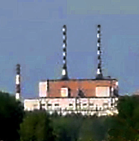 Beloyarsk Nuclear Power Plant Main street of the Russian town of Zarechny